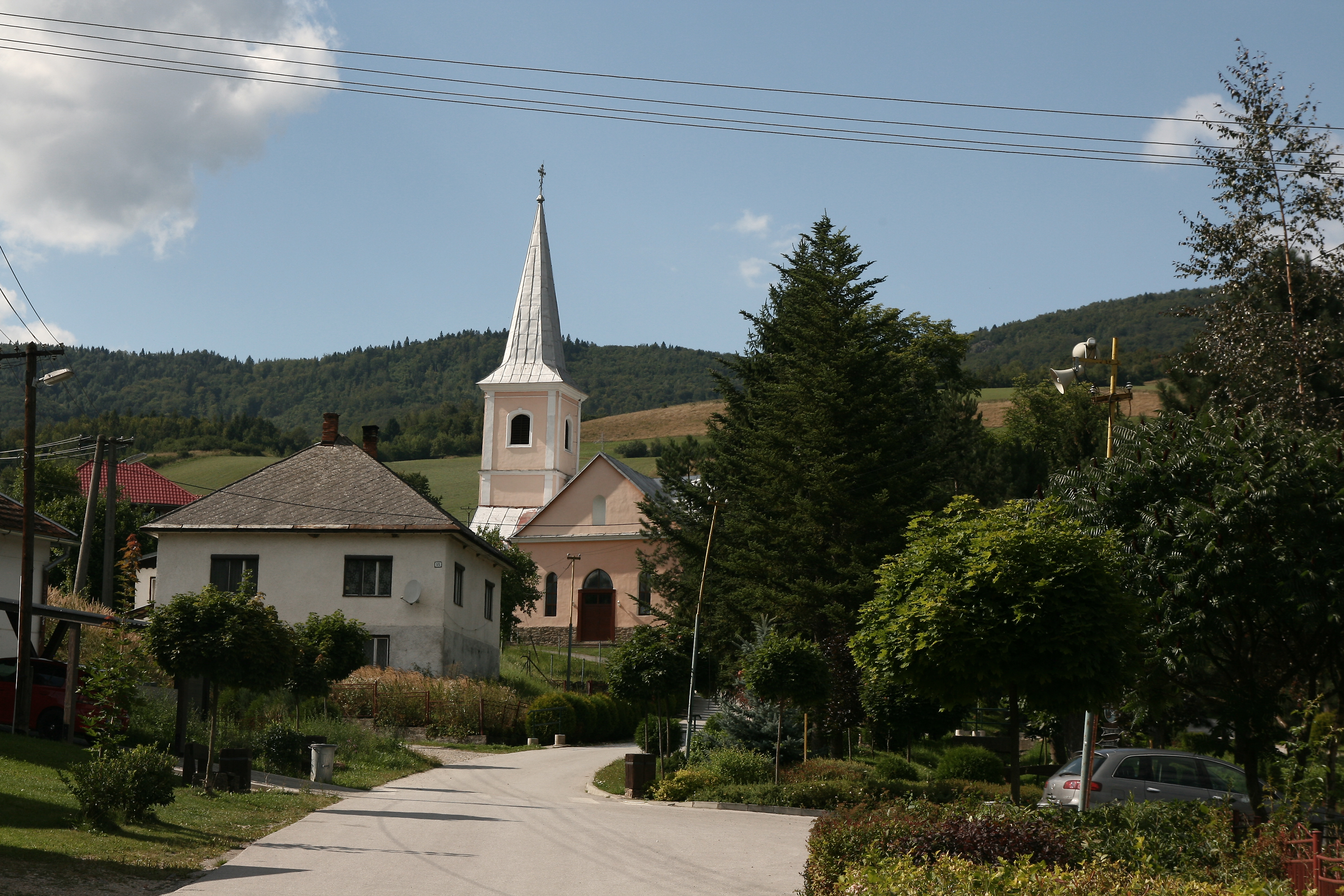 Helcmanovce, Slovakia, view on the village church.